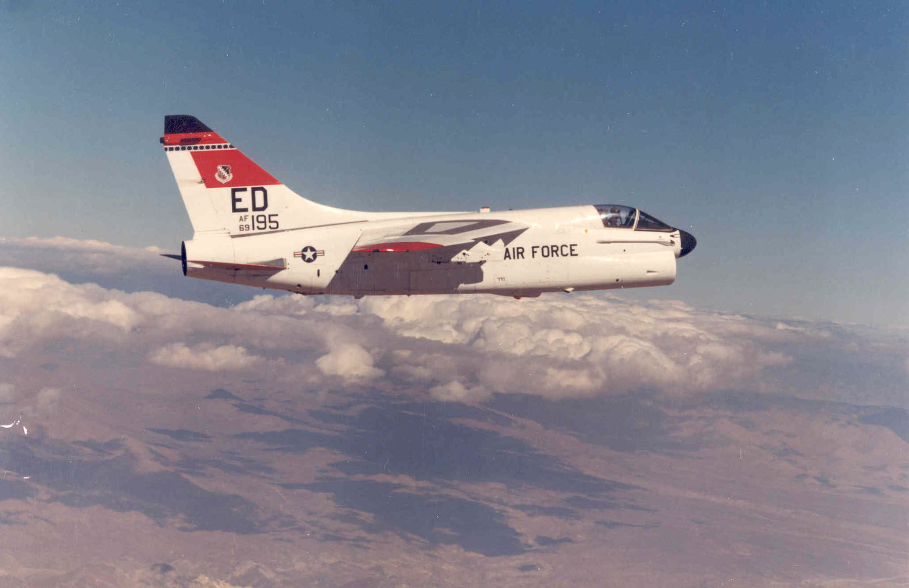 LTV A-7D (S/N 69-6195) assigned to the USAF Test Pilot School at Edwards Air Force Base, Calif. (U.S. Air Force photo) 1969: Aircraft delivered to 355th Tactical Fighter Wing/40th TFS, Davis-Monthan AFB, AZ (C/N 025) Transferred to 3246th Test Wing, Eglin AFB, FL, 1979 Transferred to 412th Test Wing/U.S. Air Force Test Pilot School, 1989 Transferred to AMARC as AE0008 May 7, 1990 Transferred to Holloman Range, New Mexico as gunnery target, June 1998